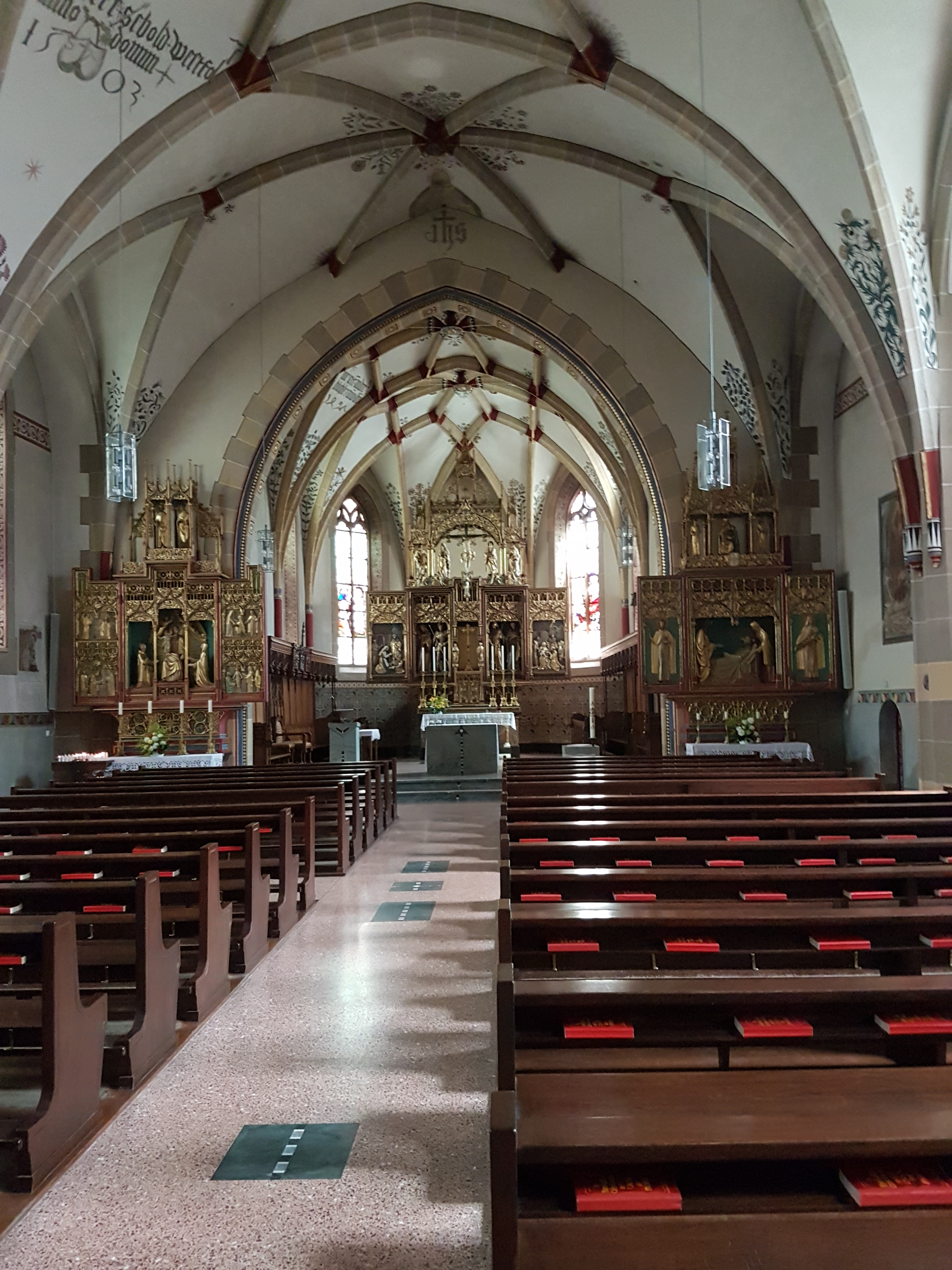 Catholic Collegiate Church of St. Victor / Chiesa collegiata cattolica di San Vittore in Poschiavo, Grisons, Switzerland.